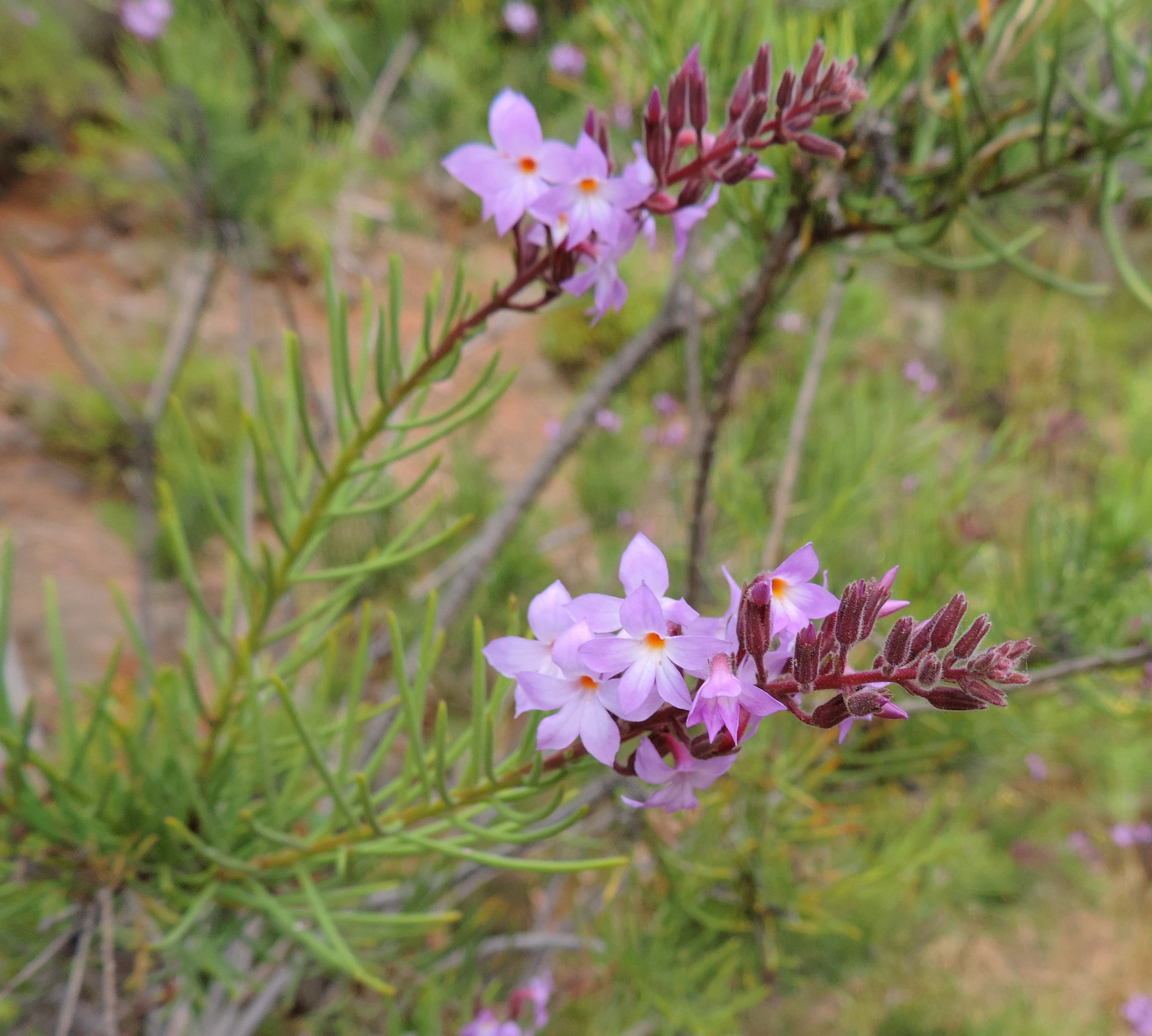 Campylanthus salsoloides in Barranco de Guayadeque (Gran Canaria)